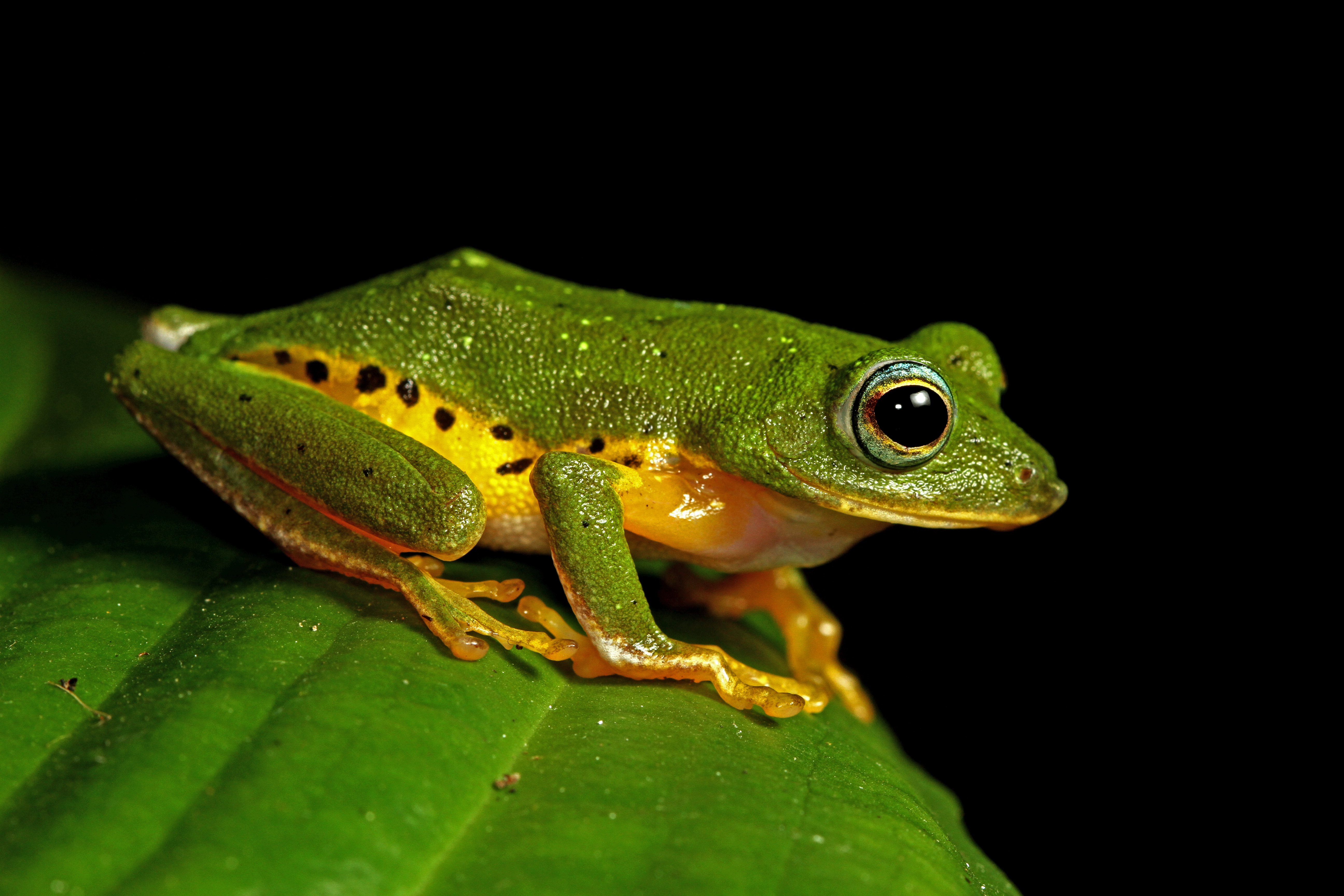 Mercurana myristicapalustris